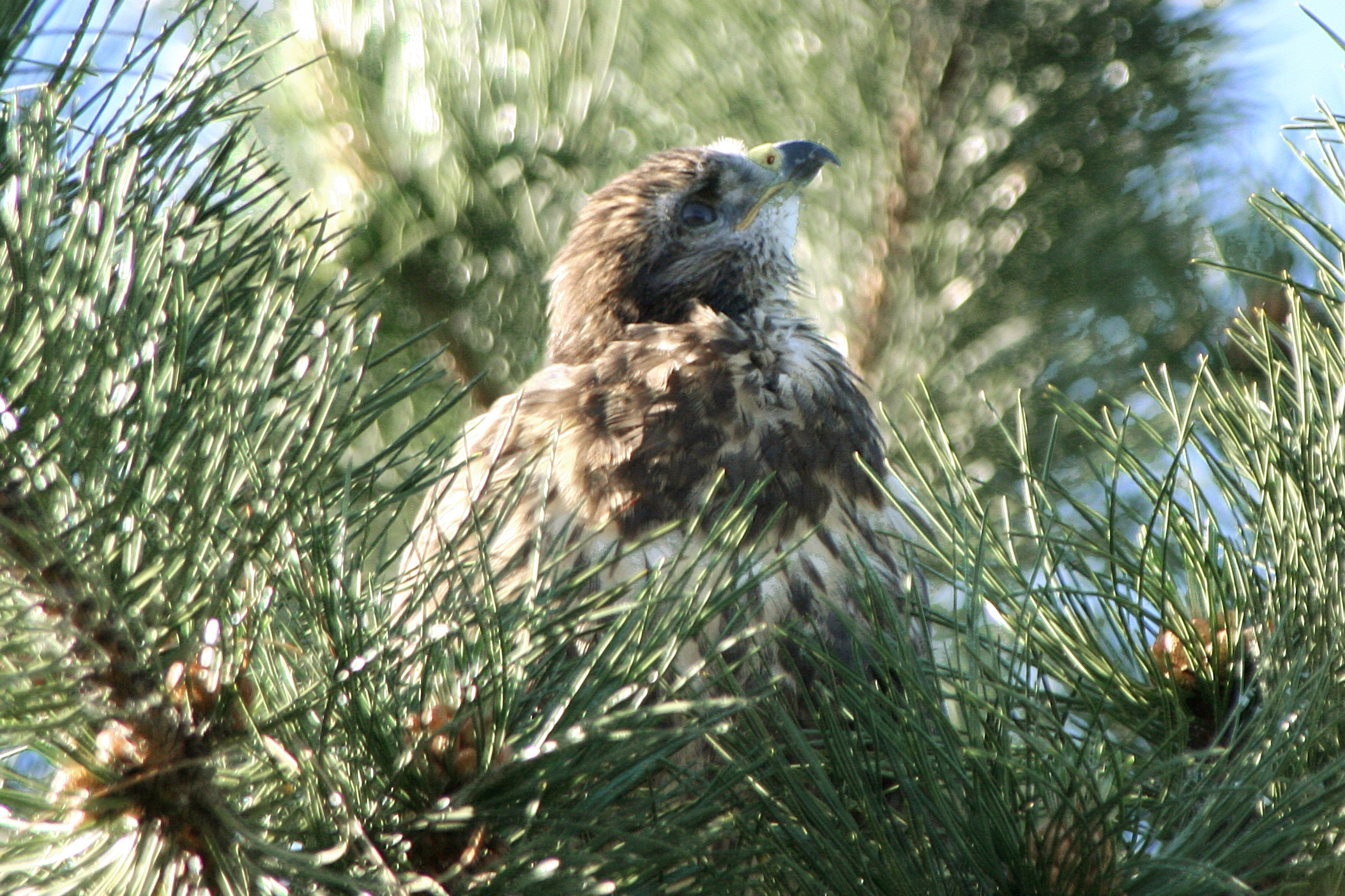 Common buzzard fledgling in a European Black Pine tree, about 3 metres away from the nest. The photograph was taken from my balcony, the nest is about 10m away from it.